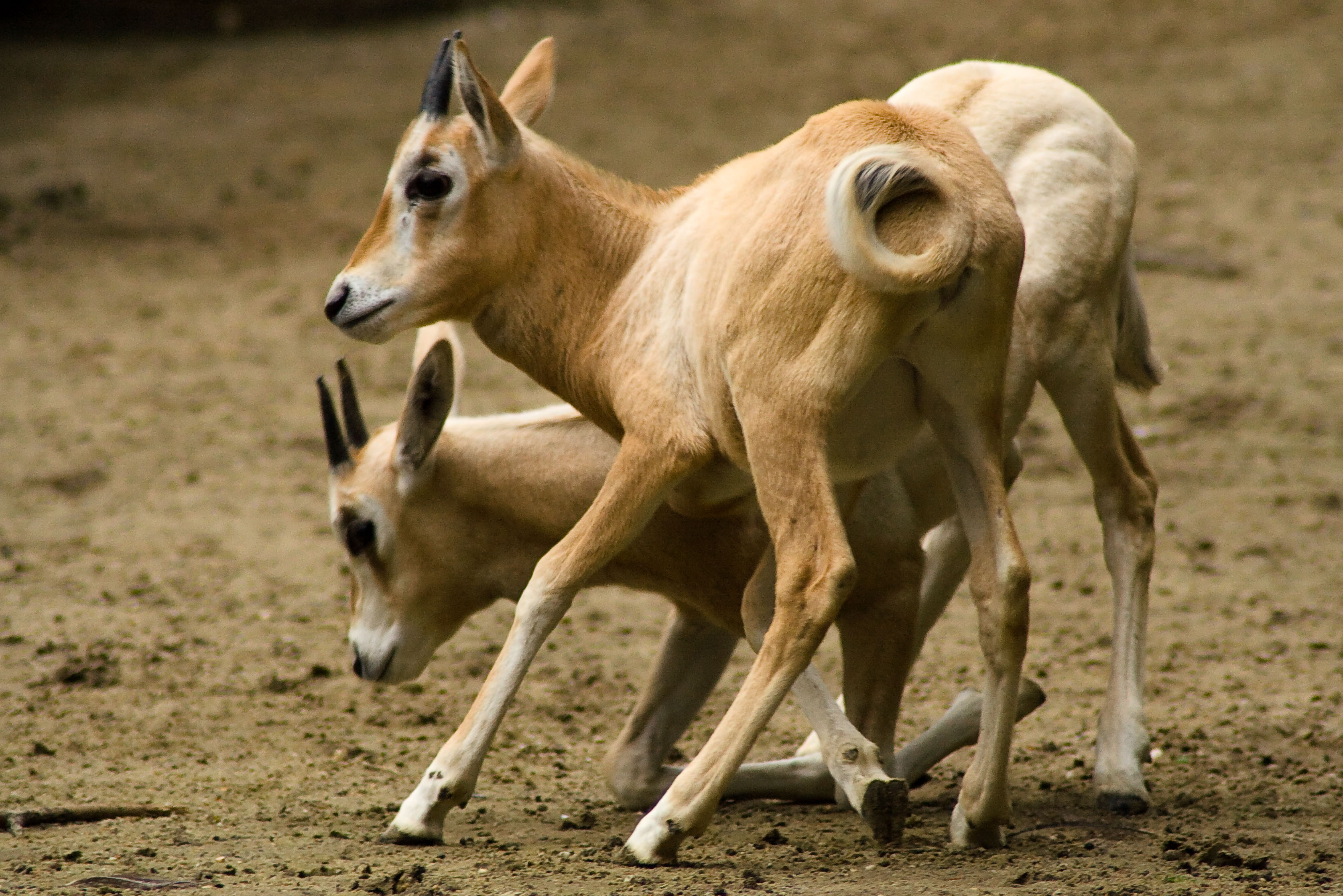 2 young Scimitar Oryxs